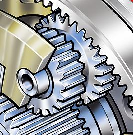 Schematic of a gear box Rohloff Speedhub (14 speed)